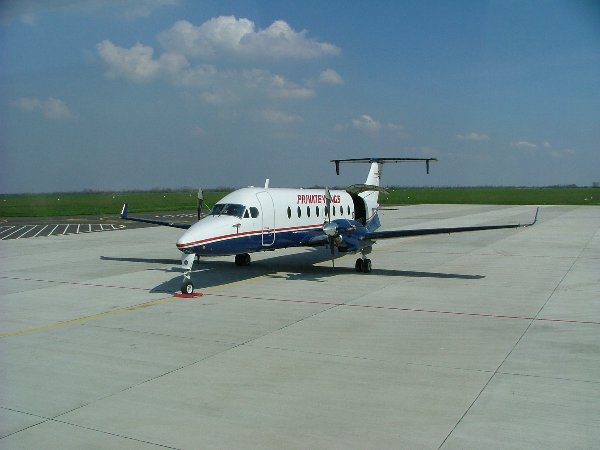 Pér, airport